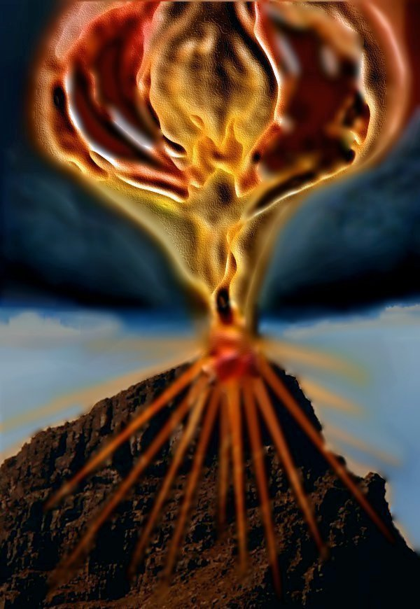 Mountain Deva at Table Mountain, Cape Point (South Africa). Artwork (essay 2) from original illustration created in 1937 by South-African Ethelwynne M. Quail for the work Kingdom of the Gods. That and a whole set of pictures were made under direction by Geoffrey Hodson describing his observations realized between 1921 and 1929. At time of publication, Quail was no longer living, being then the book dedicated to her.